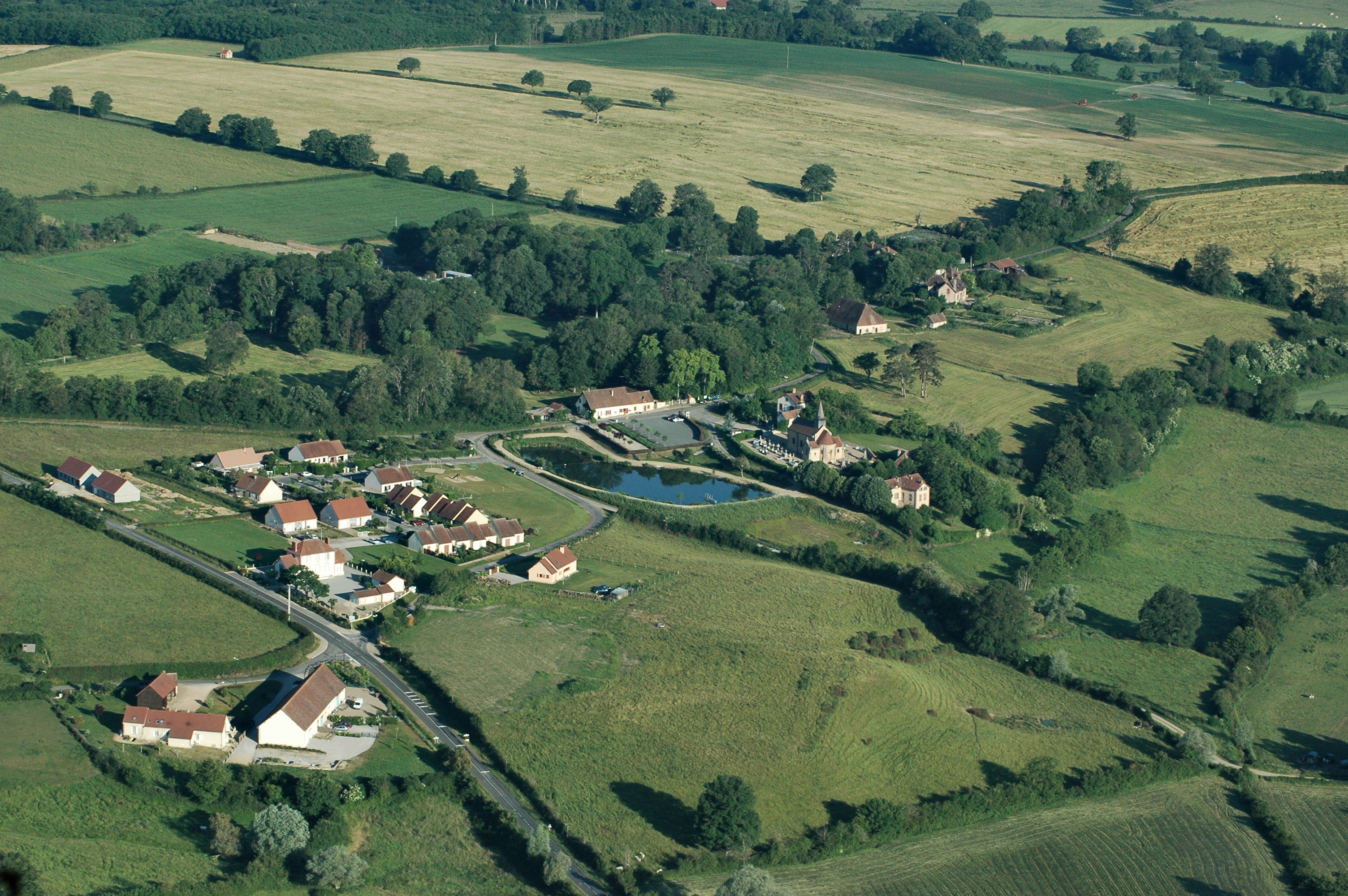 Aerial view of Aubigny, Département Allier, France